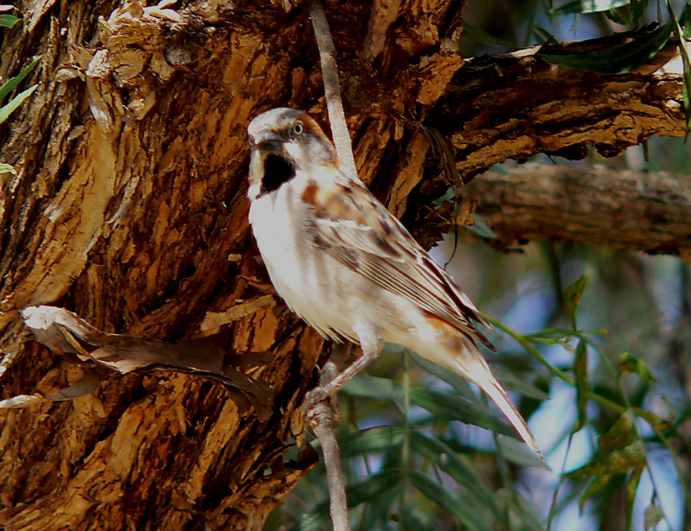 Male Kenya Rufous Sparrow (Passer rufocinctus) photographed in Nanyuki, Kenya.